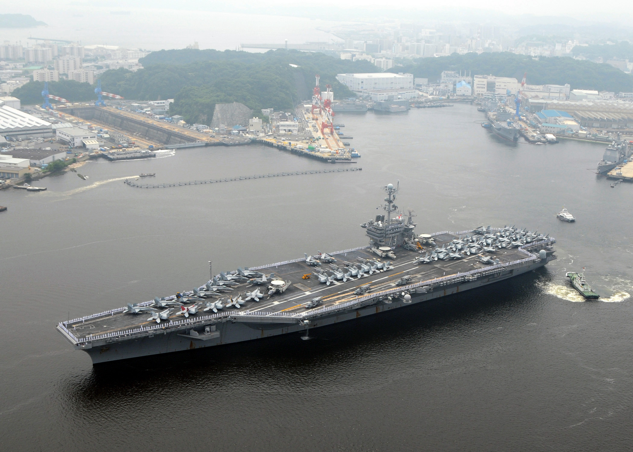 YOKOSUKA, Japan (June 10, 2009) Sailors man the rails aboard the aircraft carrier USS George Washington (CVN 73) as the ship departs on her first summer deployment since arriving at Fleet Activities Yokosuka, Japan. George Washington is underway supporting security and stability in the western Pacific Ocean. (U.S. Navy photo by Mass Communication Specialist 2nd Class Clifford L. H. Davis/Released)